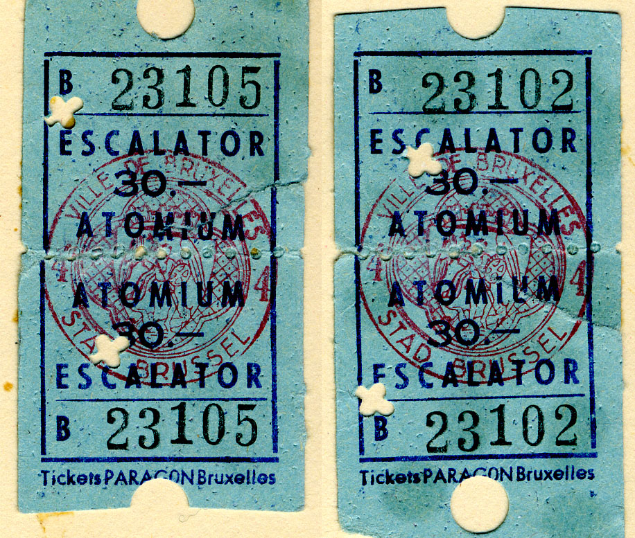 Expo 1958 ticket for the escalator in the Atomium